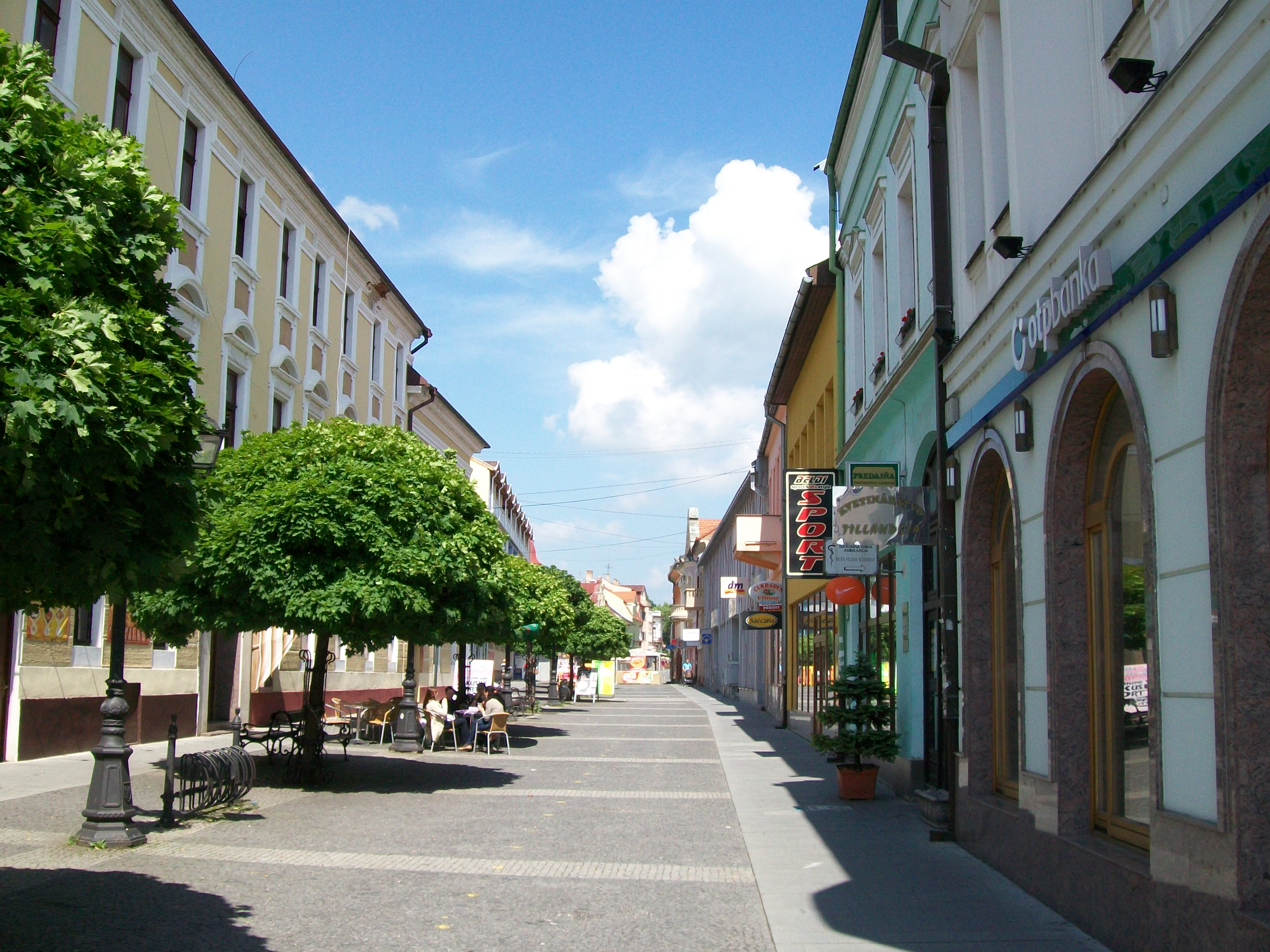 SNP Street in Rimavská SobotaSlovenčina: Ulica SNP v Rimavskej Sobote